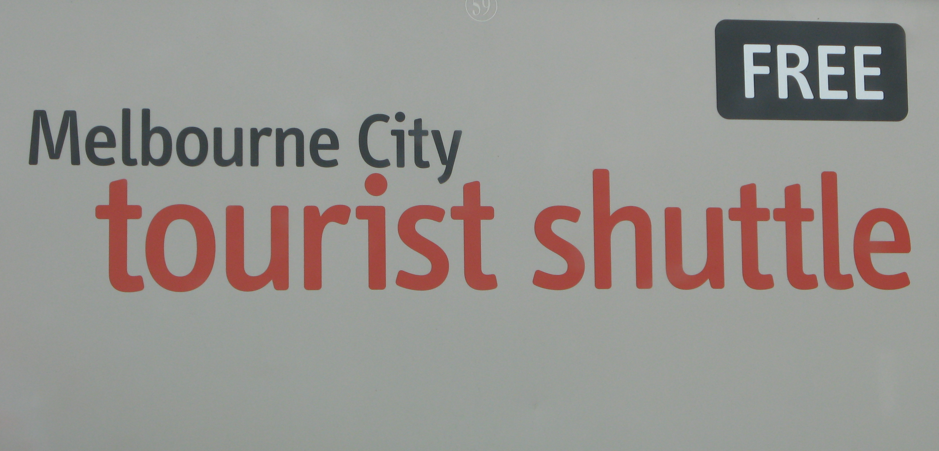 A sign for the free Melbourne Tourist Shuttle displayed on the back of the shuttle bus. Photo taken by myself in late 2009.